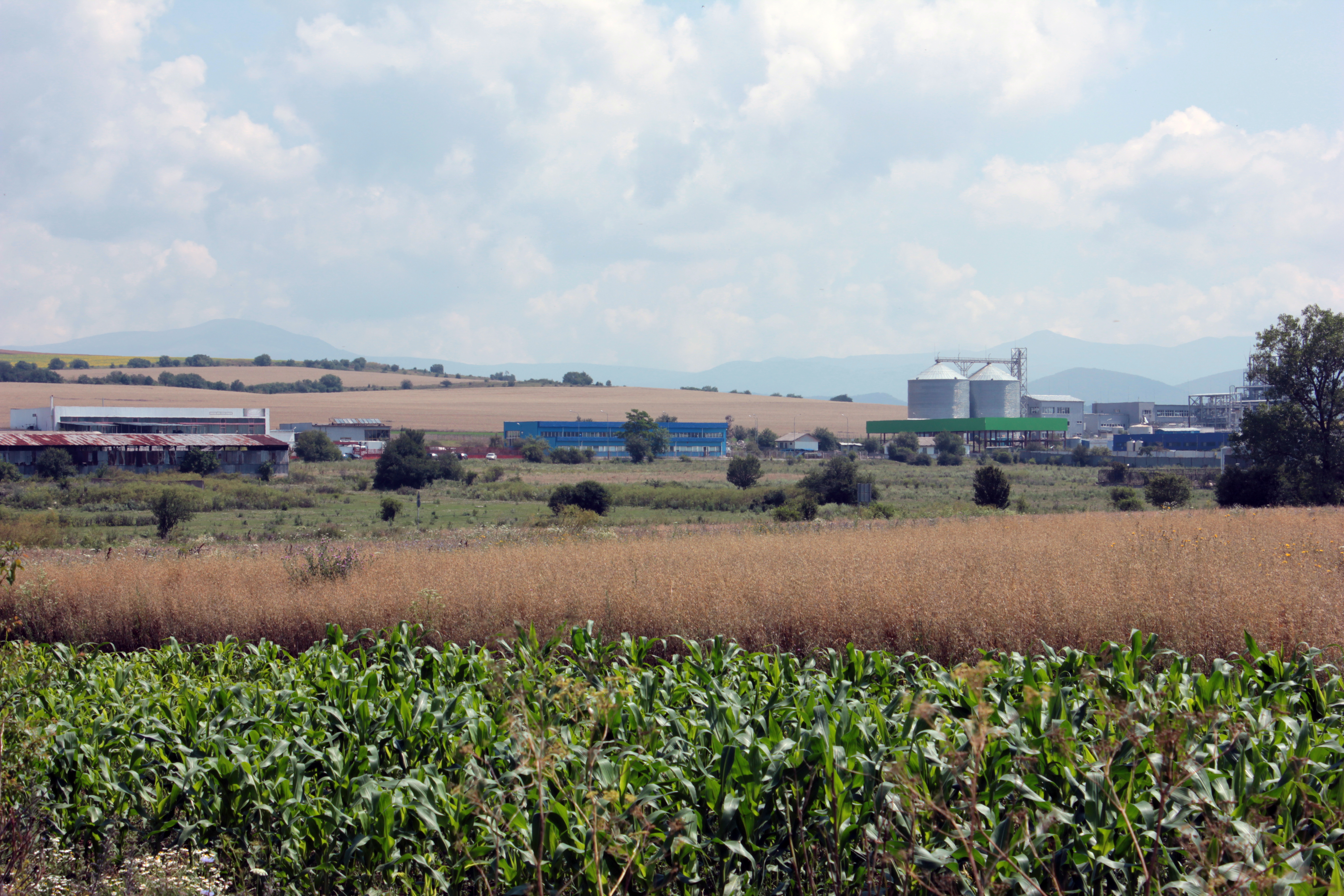 View of Industrial zone of Gorna Malina